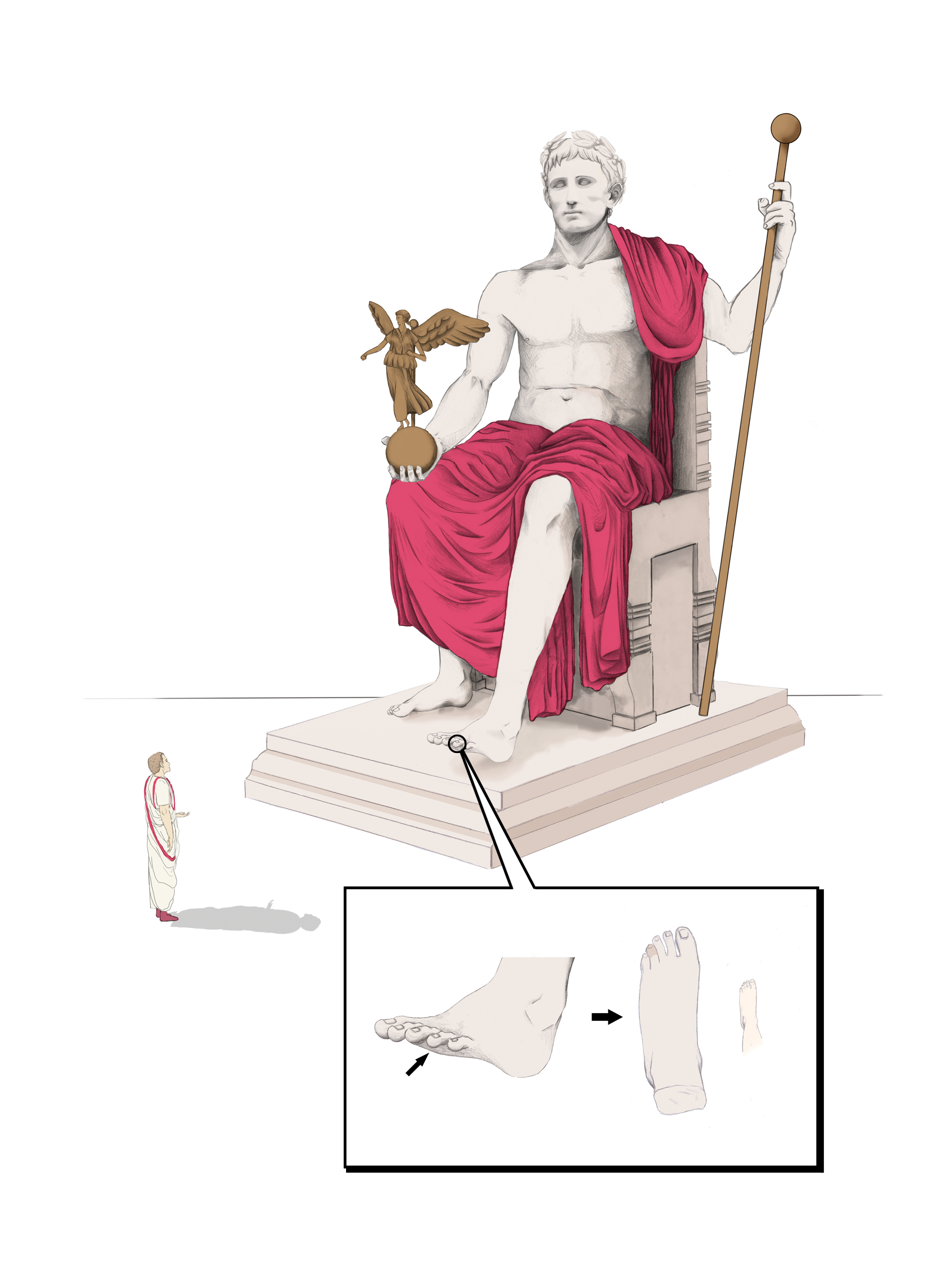 Recreation of the colossal statue of Augustus deified that dominated the worship room of his temple in Tarraco. It is based on the fragment of the fourth toe of the left foot of a colossal statue –possibly of Augustus– from the first century AD (Inv. MNAT CAT-00-3146-1), located in the archaeological excavations of the Cathedral of Tarragona (2000-2003) and inspired by statues of similar typology. Pencil drawing, digitally coloured, carried out by Cristina Toro, a 2nd year Illustration student at EADT with scientific advice from the National Archaeological Museum of Tarragona (Francesc Tarrats, Montserrat Perramon, Josep Anton Remolà and Pilar Sada) and with the assistance of Joaquin Ruiz de Arbulo, professor of archeology at the URV. Sources: R. Sala, J. Diloli, R. Mar, J. Ruiz de Arbulo 2011; Història de Tarragona, vol. 1, Tarragona. P. Pensabene, R. Mar, 2010, “Il tempio di Augusto a Tarraco. Gigantismo e marmo lunense nei luoghi di cultoimperiale in Hispania e Gallia”, Archeologia Classica, LXI, fig. 18). This image was provided to Wikimedia Commons as a contribution from an Art&Design School thanks of a collaboration between Escola d'Art i Disseny de Tarragona and Amical Wikimedia.